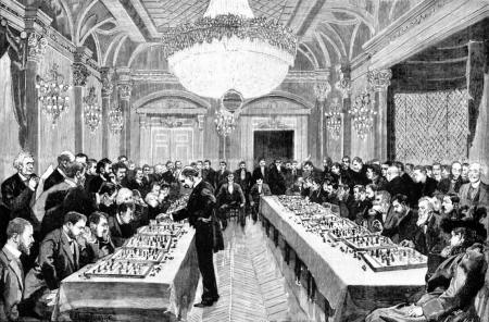 A simultaneous exhibition given by Samuel Rosenthal in Paris in 1867